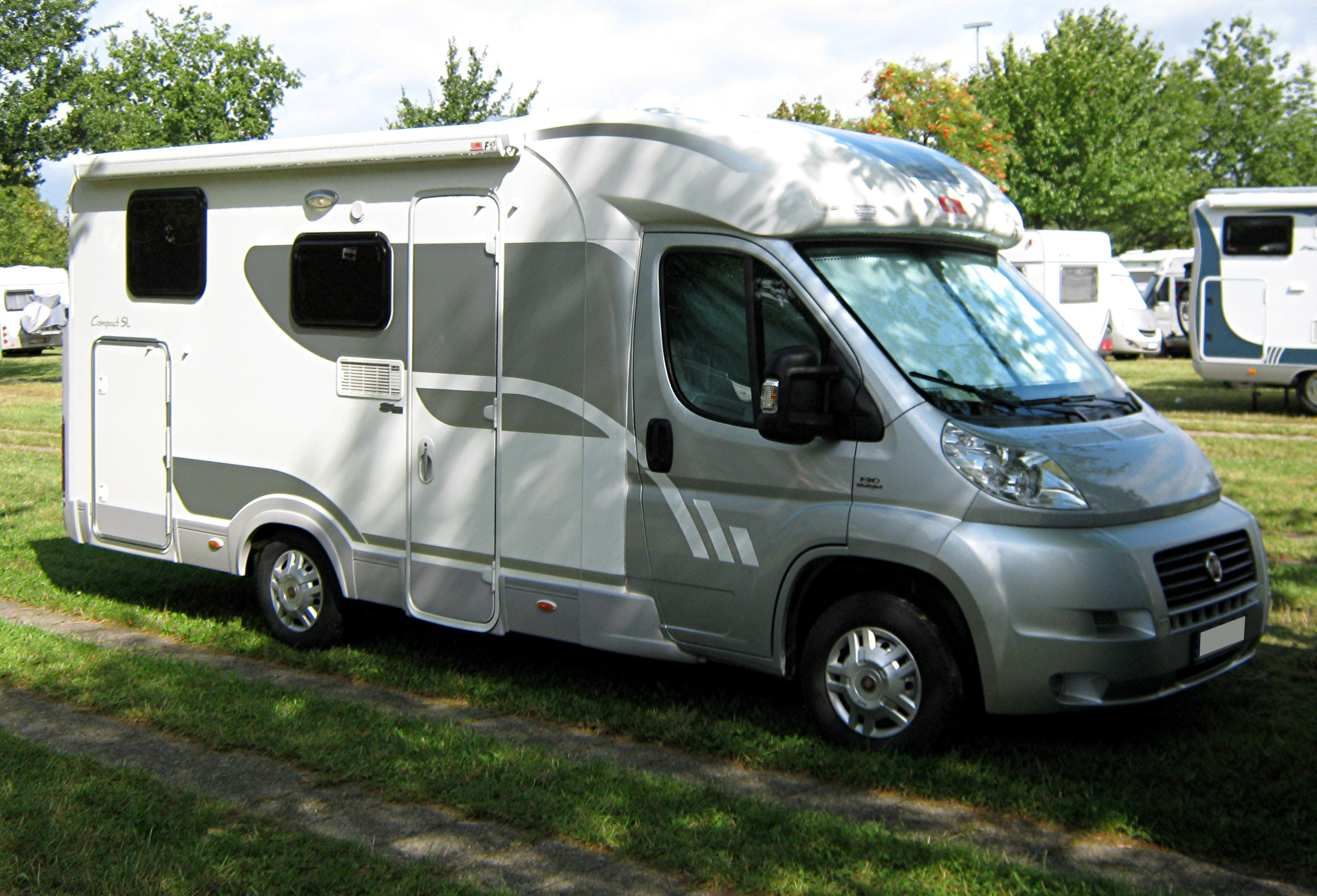 Fiat Ducato - Adria Compact SL RV.